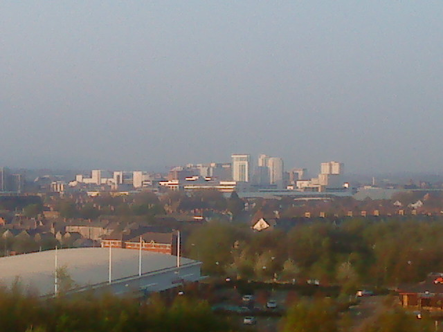 Cardiff CBD